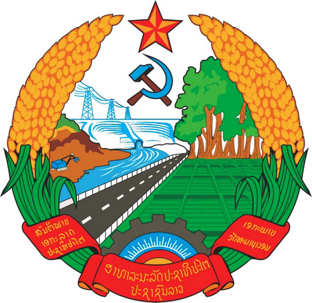 Lao People's Democratic Republic amblem